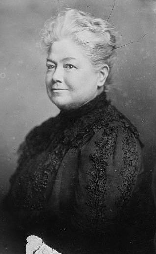 Laura Clay, suffragist from Kentucky